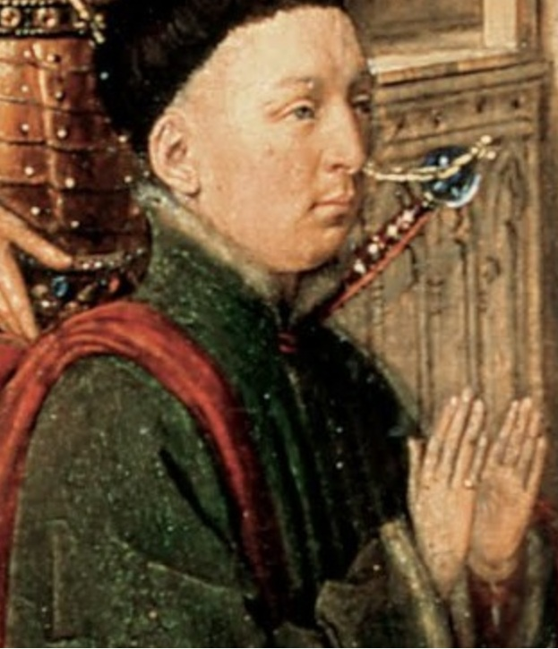 Crop of Dresden Triptych showing the unknown donor